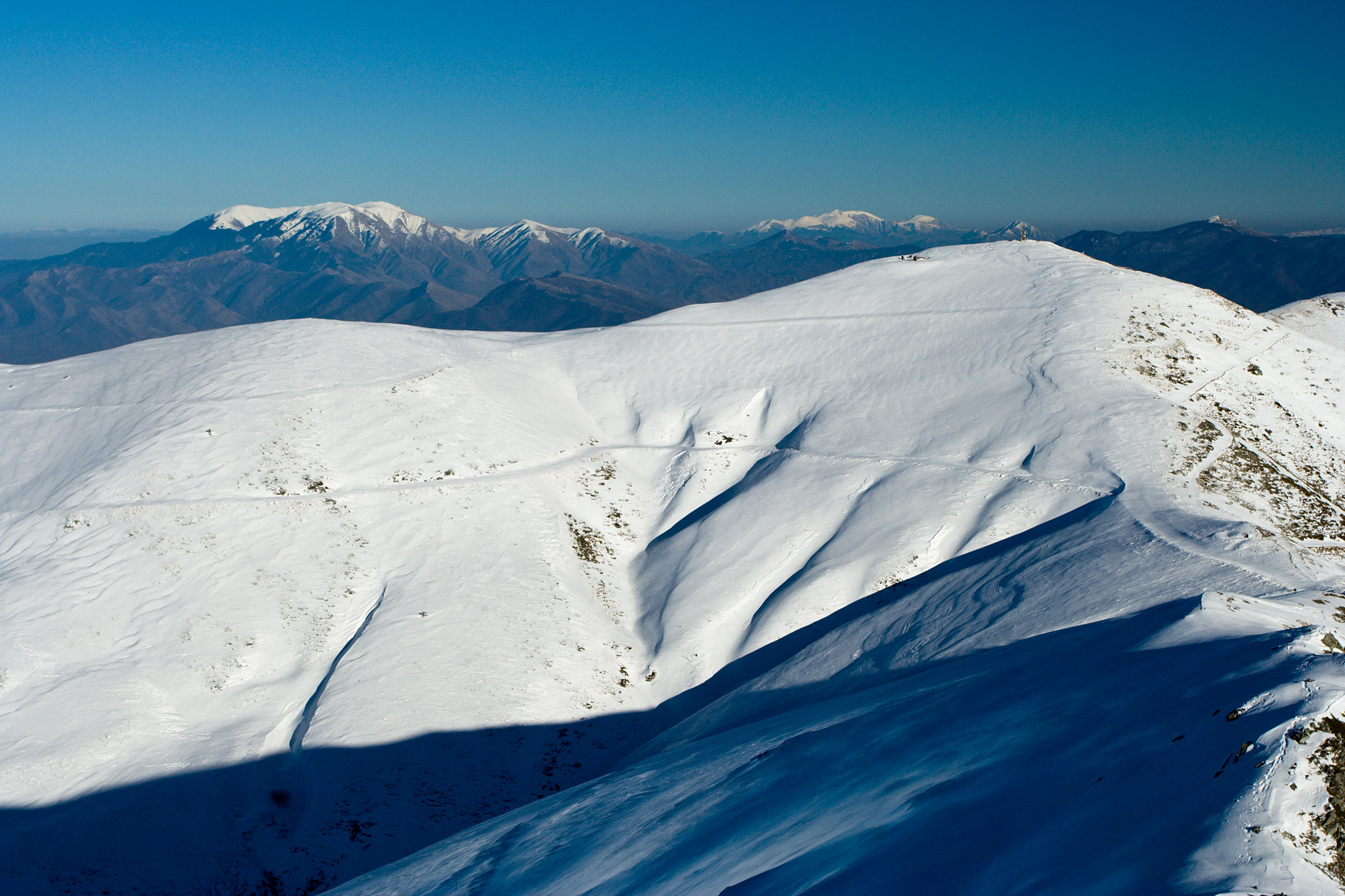 Kongur - a summit in Belasitsa mountain, Bulgaria